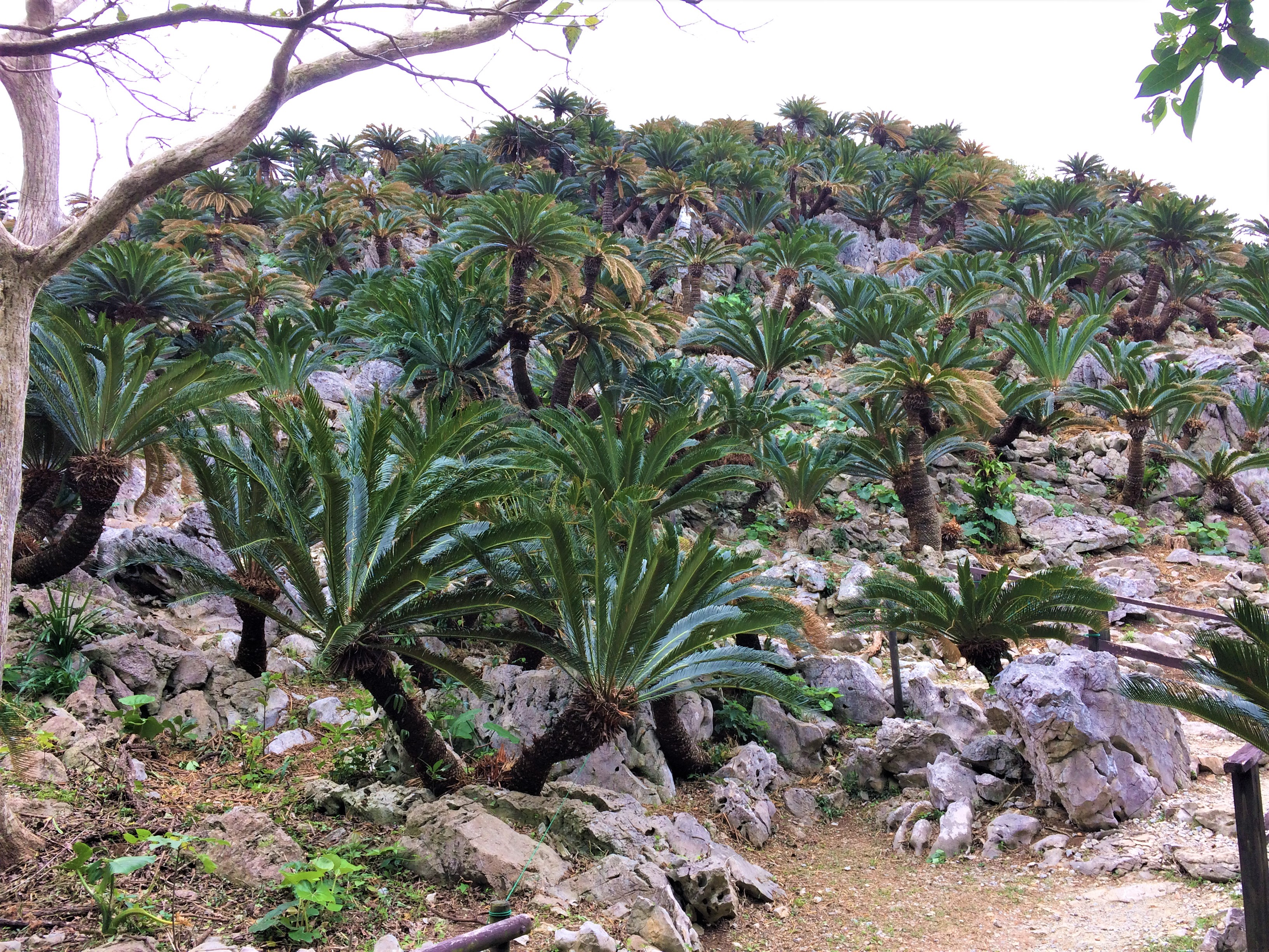 Cyclo community